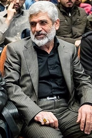 Hassan Abbasi and Rahim Ahmadi Roshan in Fifth anniversary of Mostafa Ahmadi